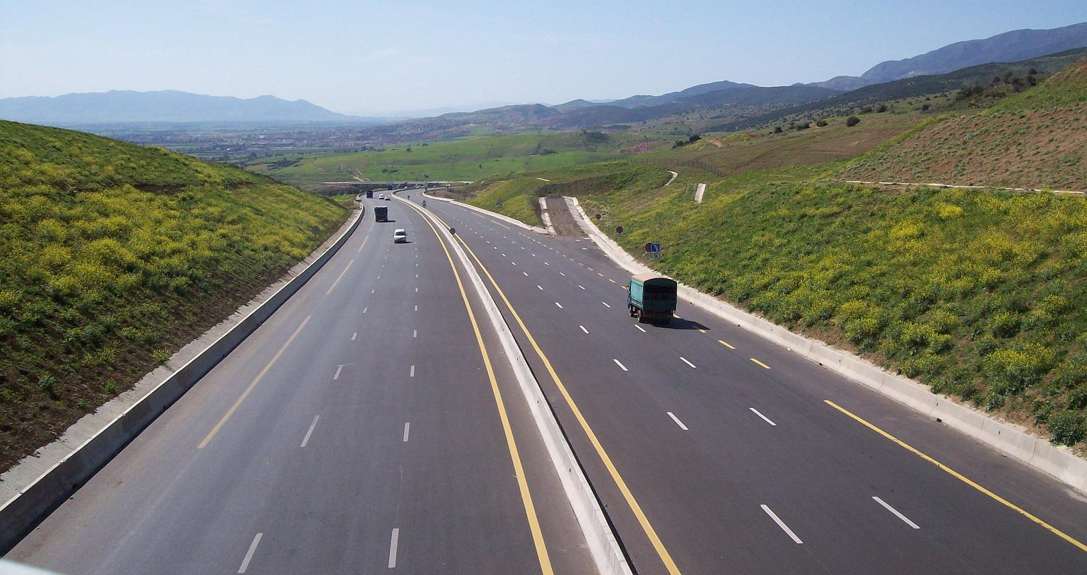 Est-West Motorway, near Ghomri (Relizane Province, Algeria)